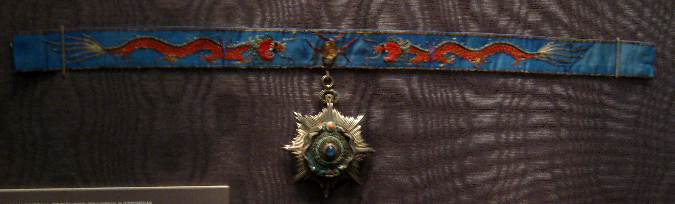 Qing Empire's Order of the Double Dragon (Shuang long bao xing), 2nd grade, which was awarded to the Russian Crown Prince Alexey (son of Nicholas II of Russia)